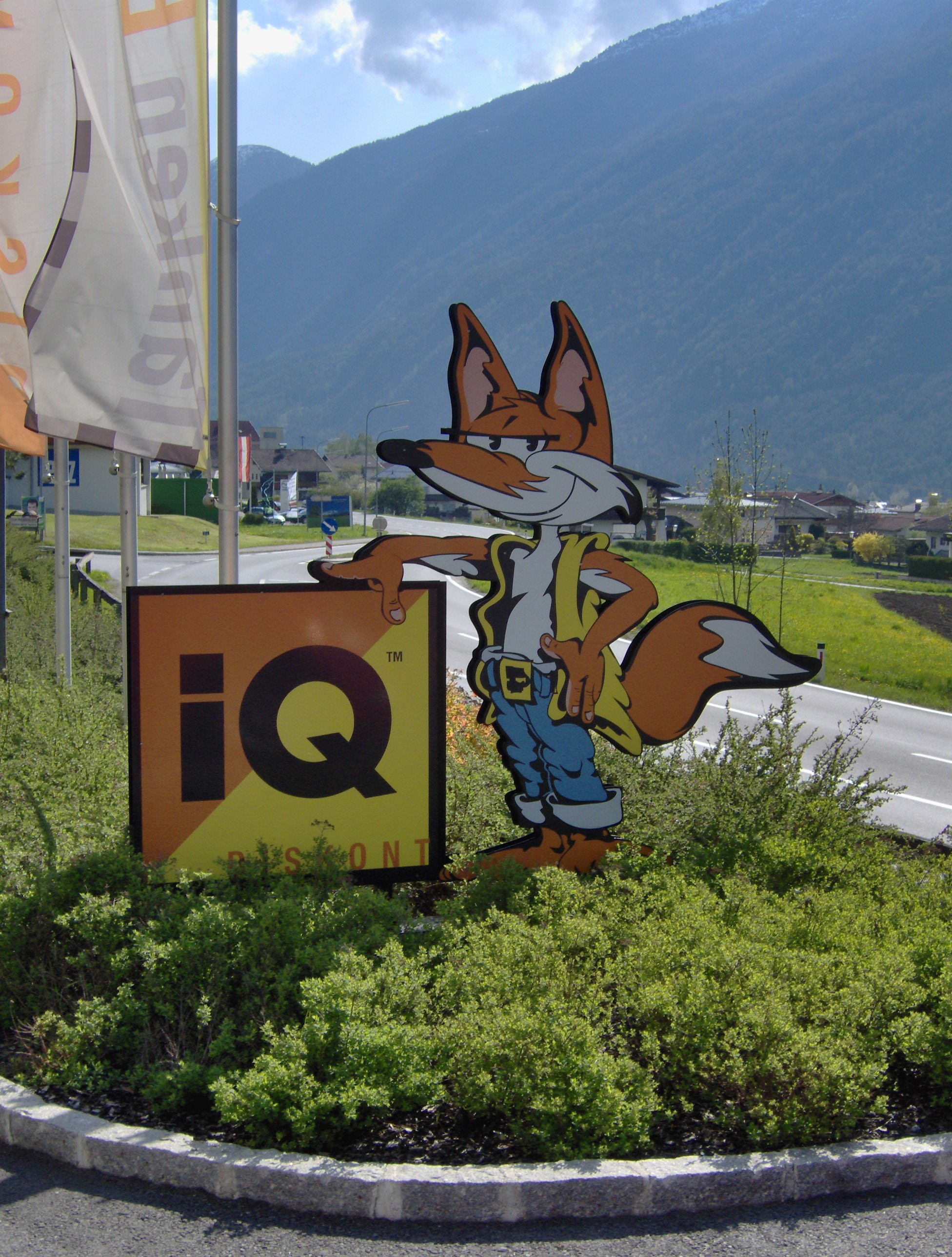 Logo of the filling station brand IQ-Diskont in Tarrenz, Tyrol, Austria